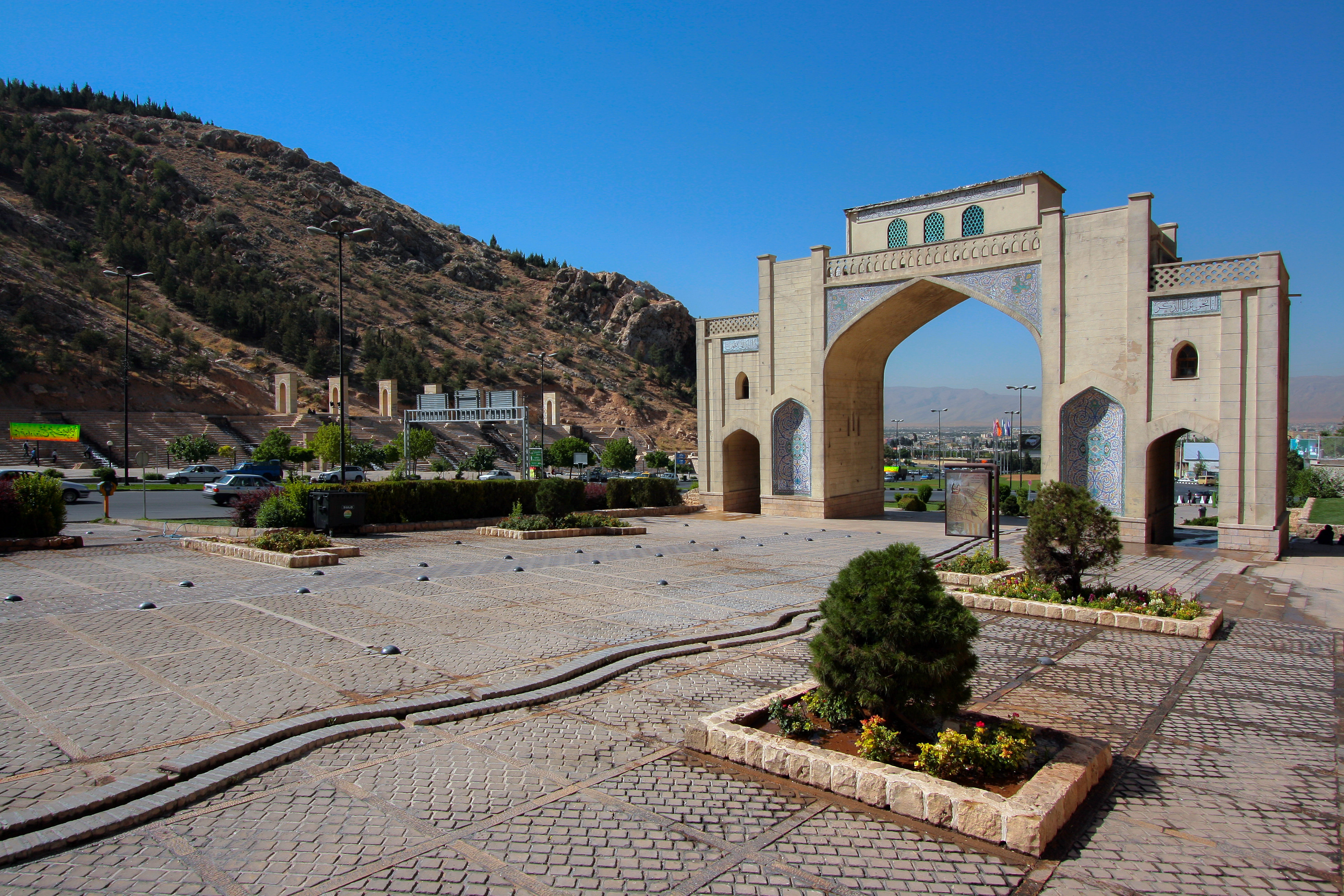 Qur'an Gate is a historic gate in the north of Shiraz, Iran. It is located at the northeastern entrance of the city, on the way to Marvdasht and Isfahan, between Baba Kouhi and Chehel Maqam Mountains near Allah-O-Akbar Gorge.